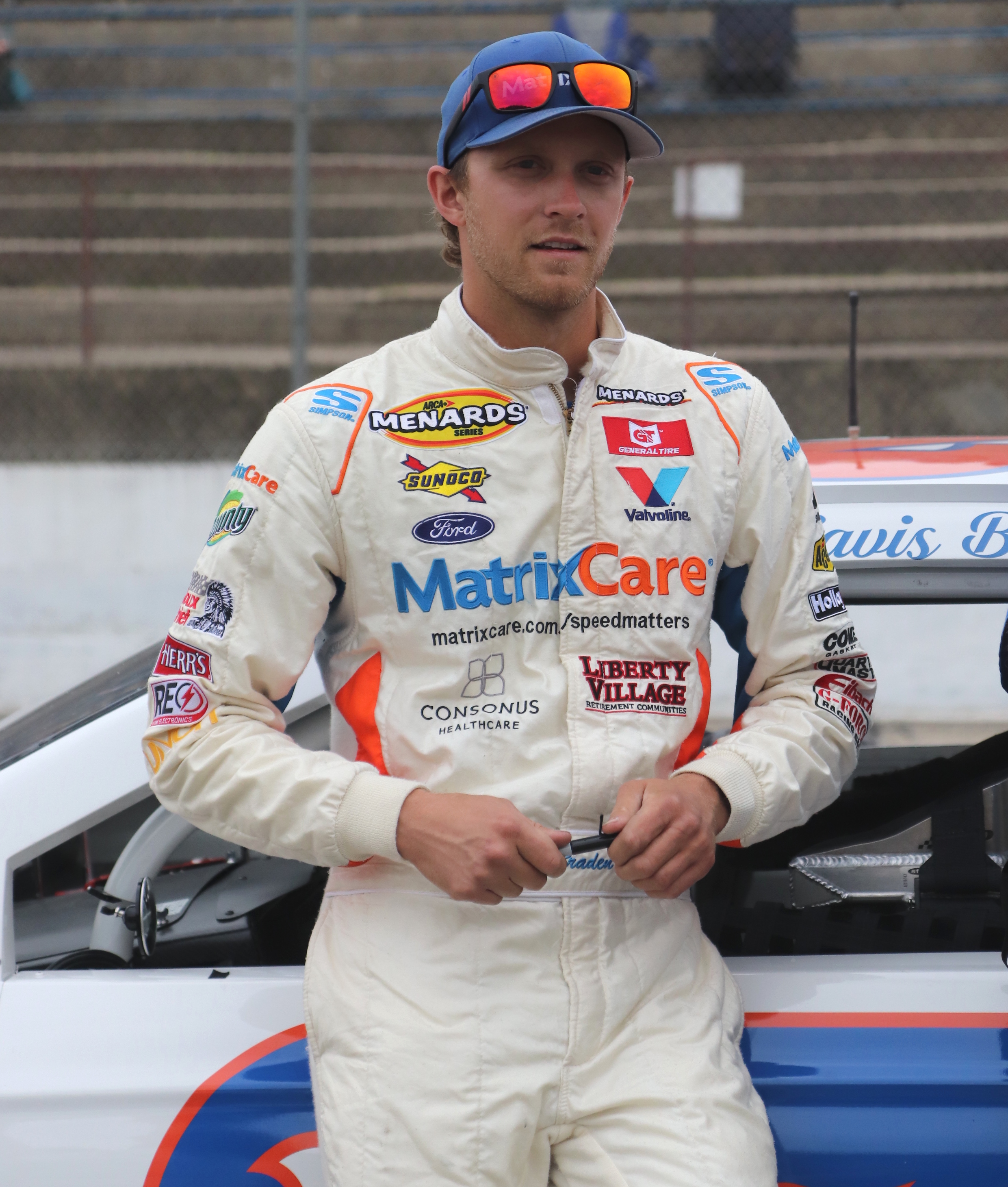 ARCA driver Travis Braden at Madison International Speedway